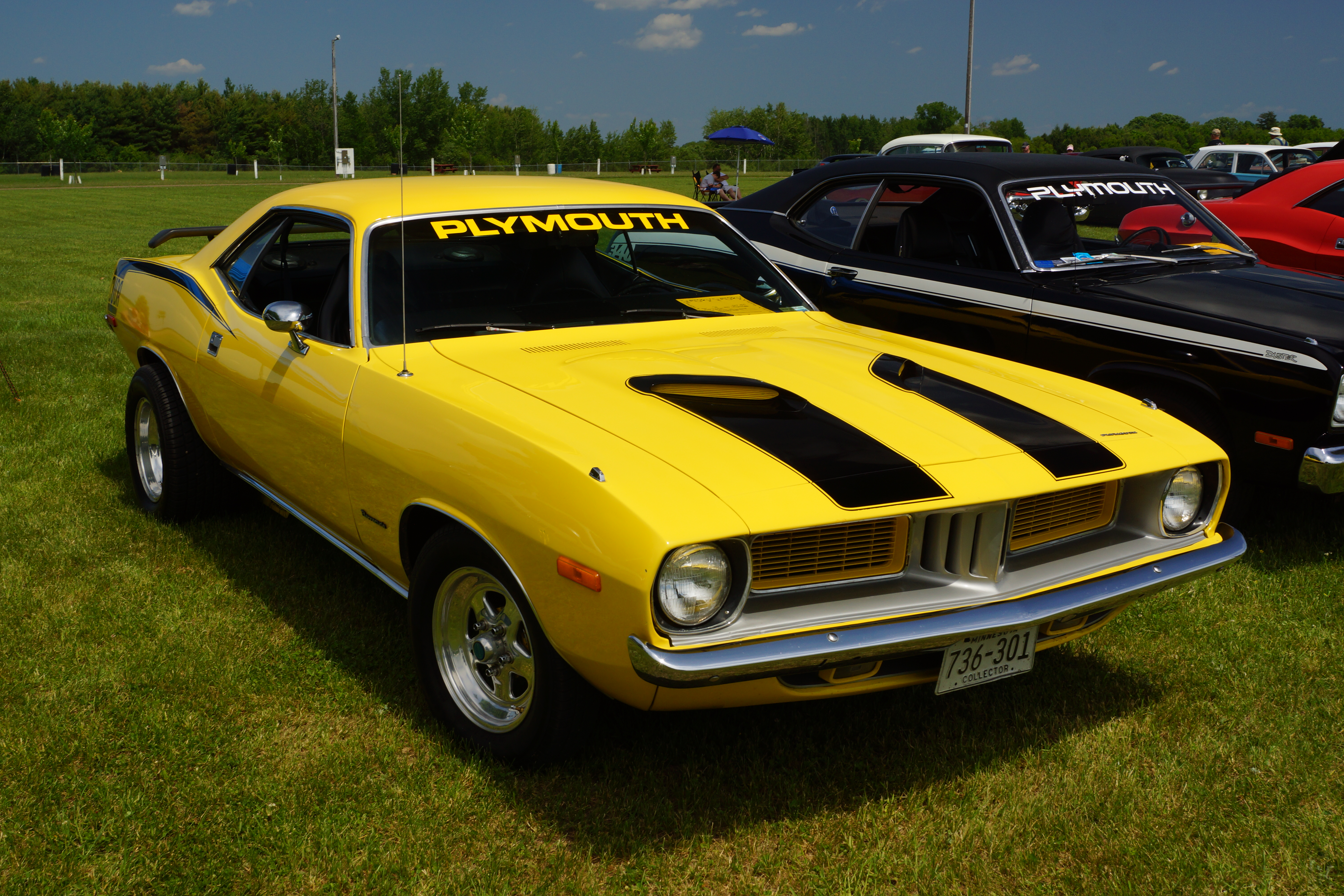 Click here for more car pictures at my Flickr site. North Central Hudson-Essex-Terraplane Club 42nd Annual 2016 Memorial Day Car Show Isanti County Fairgrounds Cambridge, Minnesota